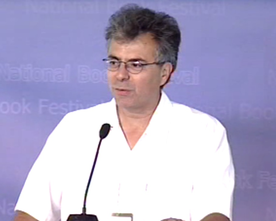 Author and poet Gary Soto speaks at the 2001 National Book Festival in Washington, D. C.